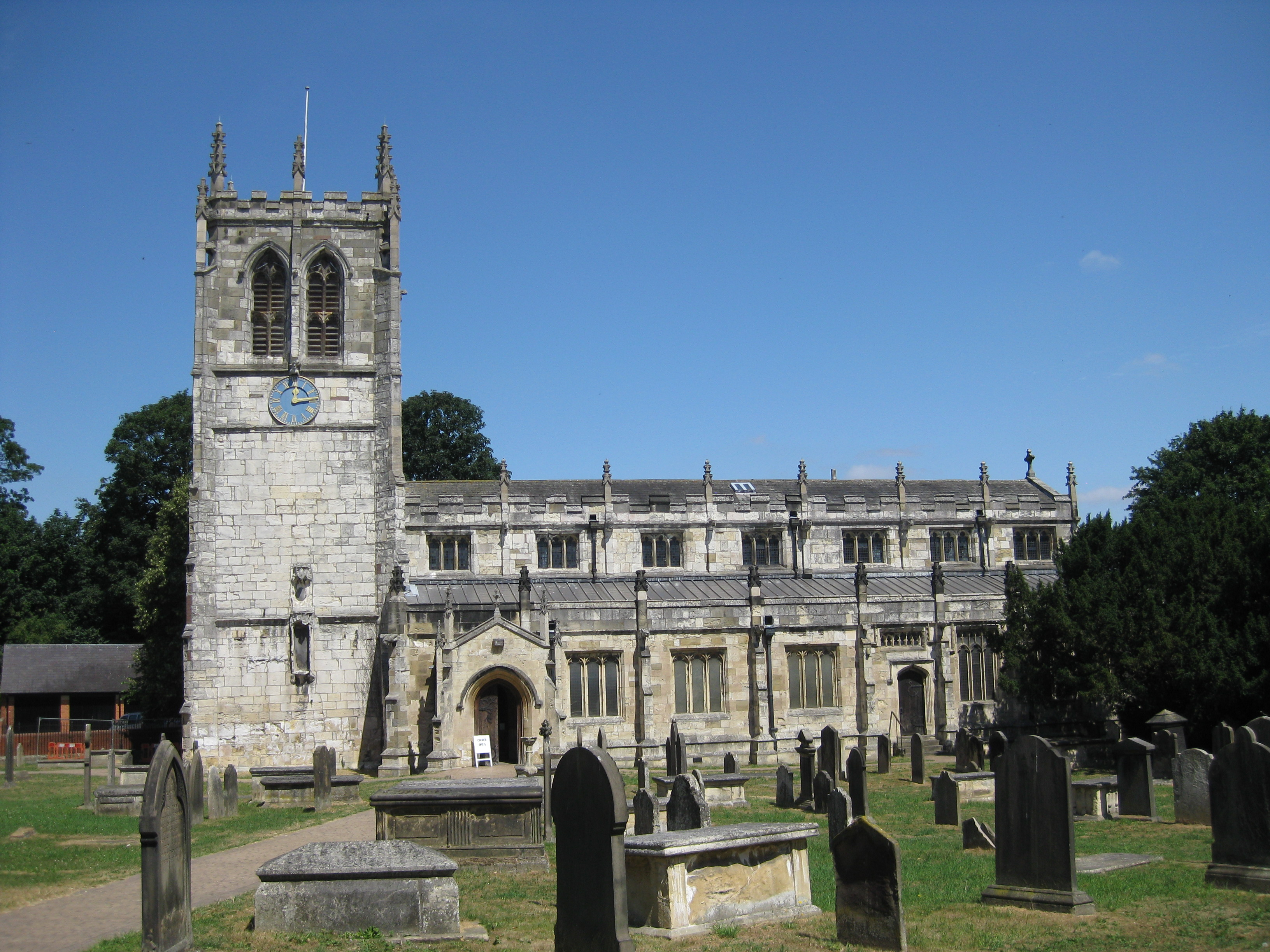 Church of St Mary the Virgin, Tadcaster. South face and cemetery.